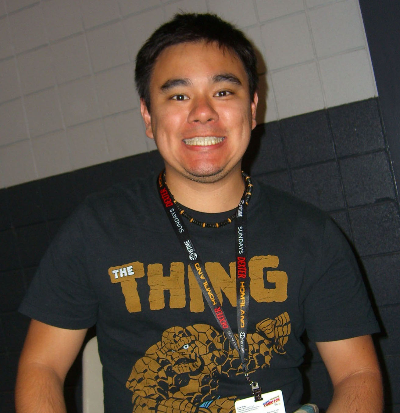 Comics creator Marcio Takara during an October 16, 2011 appearance at the New York Comic Con in Manhattan. This photo was created by Luigi Novi. It is not in the public domain, and use of this file outside of the licensing terms is a copyright violation.